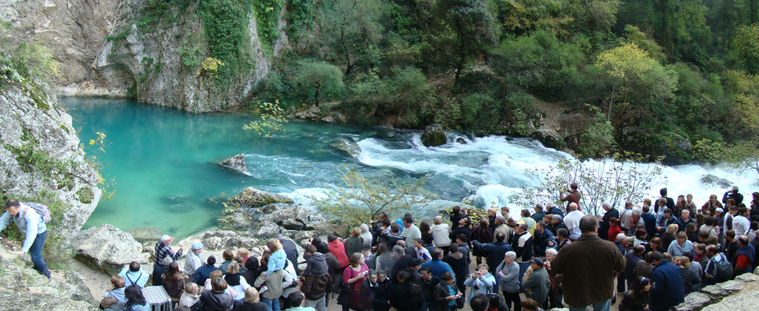 Tourists in Fontaine du Vaucluse (France).